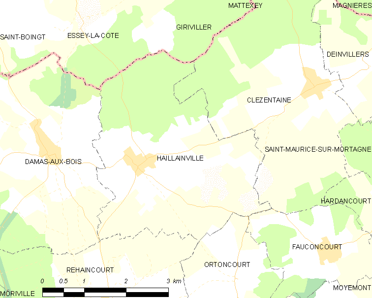 Map of French municipality Haillainville